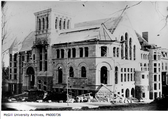 Redpath Library under construction, McGill University, 1892